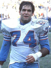 Bruce Matthews with his brother Clay Matthews in 1984. Photo taken at a game between the Cleveland Browns and the Houston Oilers.